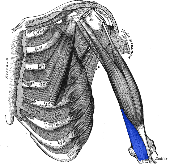 Image of the Brachialis muscle